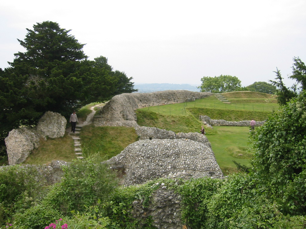 Old Sarum Royal Palace